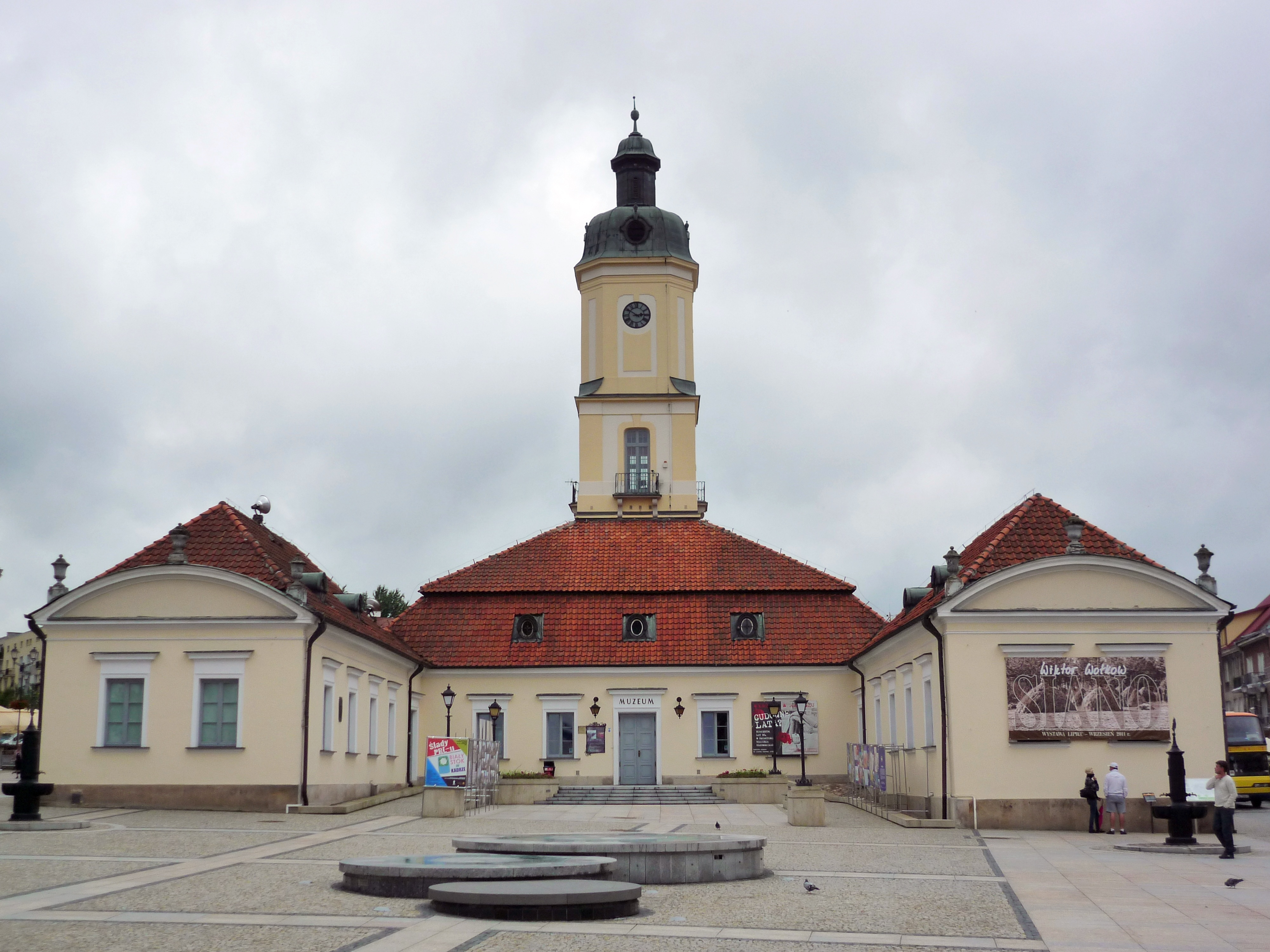 Białystok - city town hall (Podlaskie Museum since 1958)